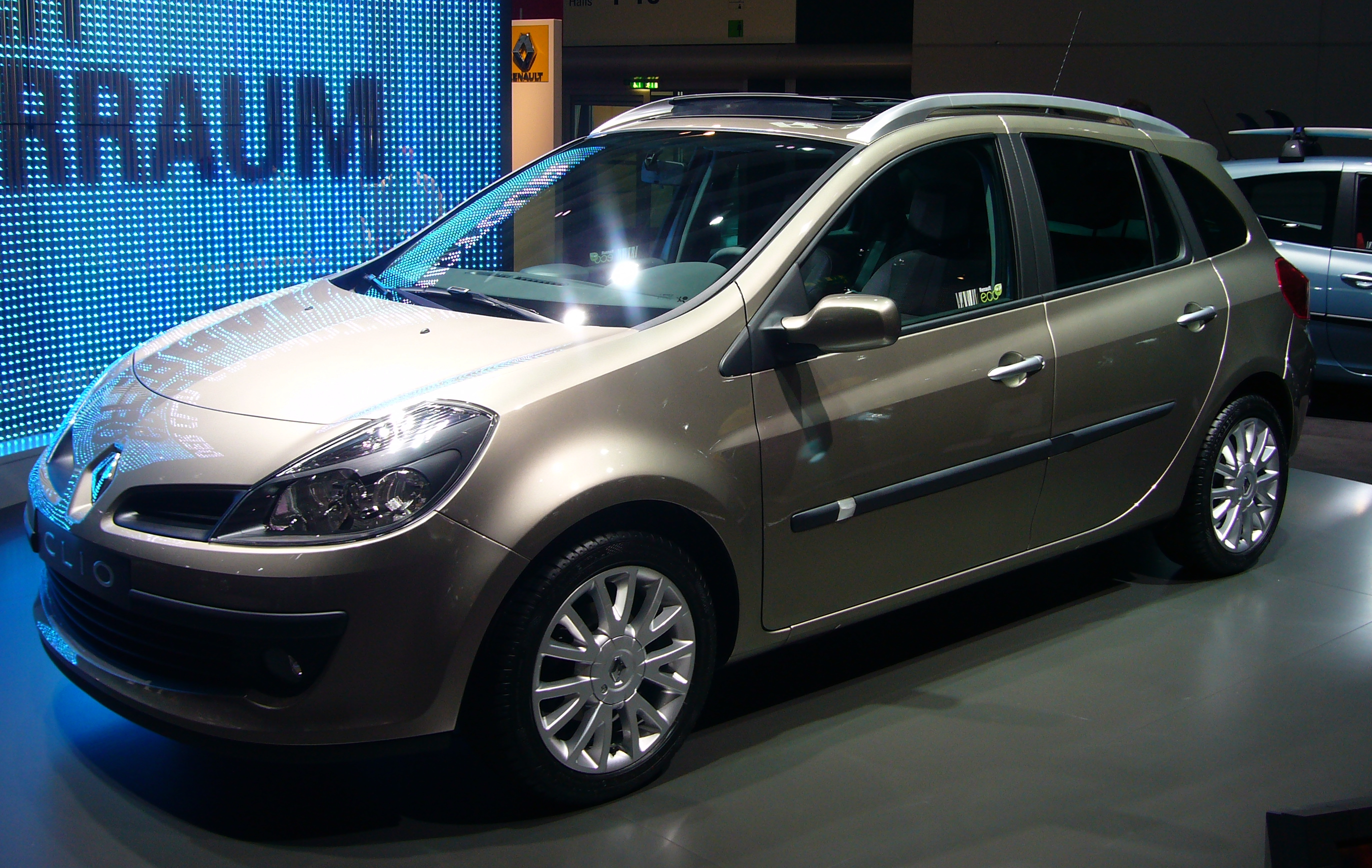 Renault Clio Estate at IAA Frankfurt 2007